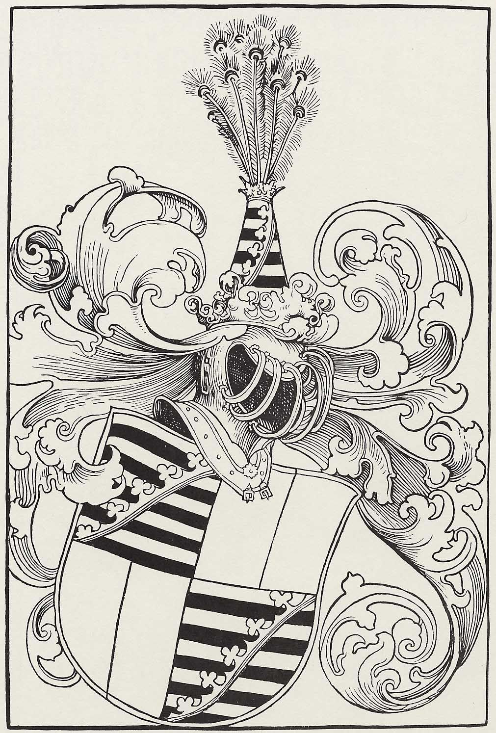 Coat of Arms of John V, Duke of Saxe-Lauenburg (also numbered John IV, xylography by Lucas Cranach the Elder)